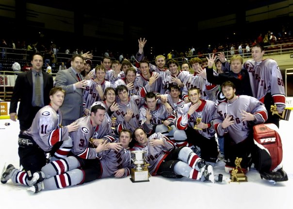 University of Georgia Ice Dogs after winning the 2007 Thrasher Cup.